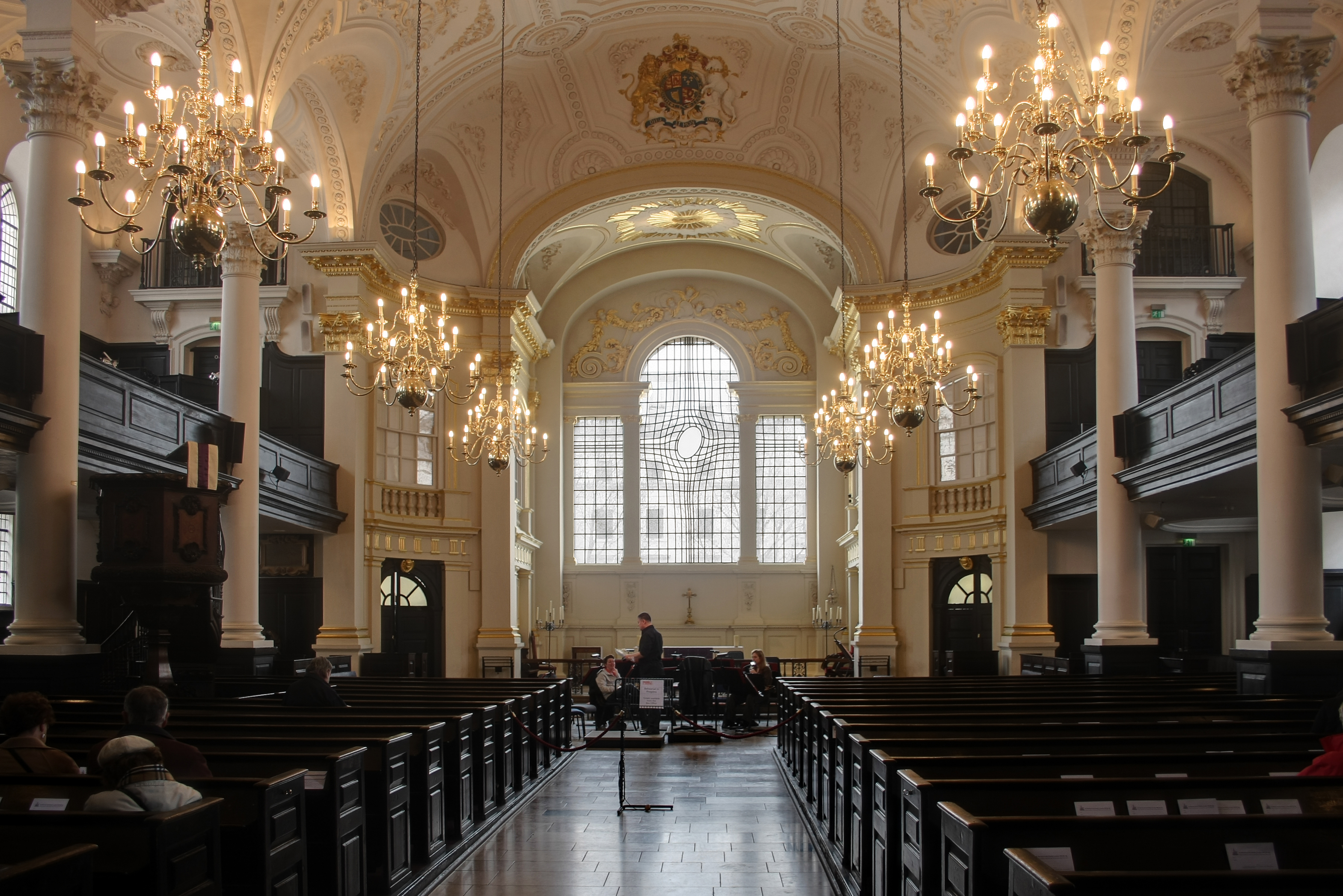 Interior of St Martin-in-the-Fields, Anglican church by Trafalgar Square in London